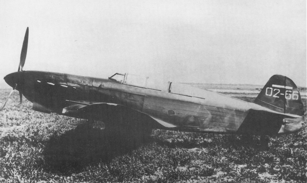 Yakovlev Yak-7V trainer